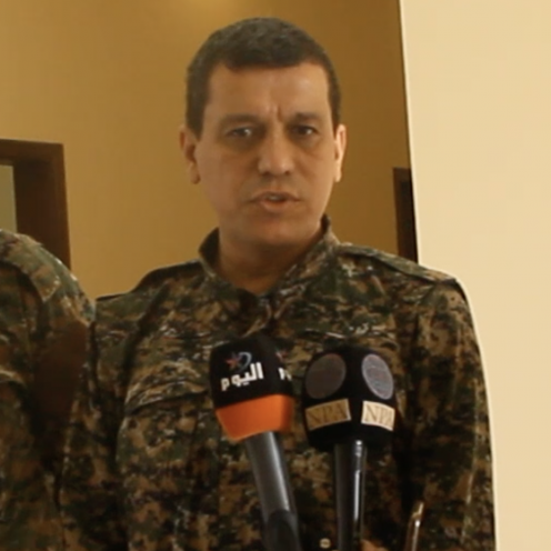 General commander of the SDF, Mazlum Kobanê Abdi, speaking at a press conference in July 2019.